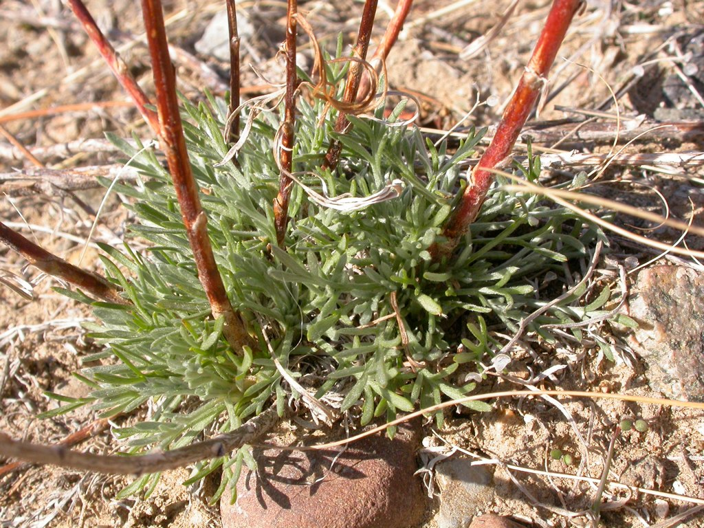 The basal dissected leaves are clustered into a distinct rosette.